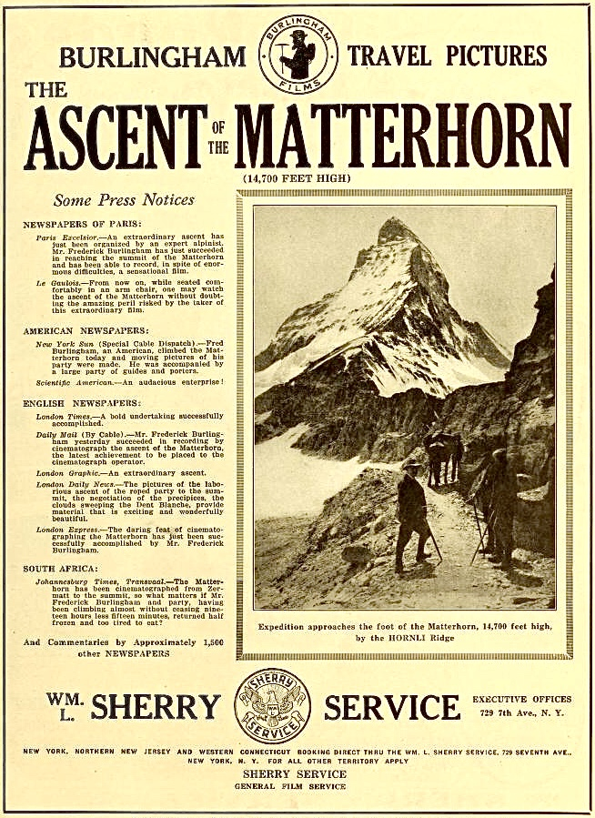 Screenshot of advertisement for travelogue produced by Burlingham Travel Pictures, The Ascent of the Matterhorn, originally filmed by Frederick Burlingham in 1913; published in Moving Picture World, February 15, 1919, p. 851; distributed in the United States by Sherry General Film Service, New York, N.Y.; image of climbers on path with the mountain in background.